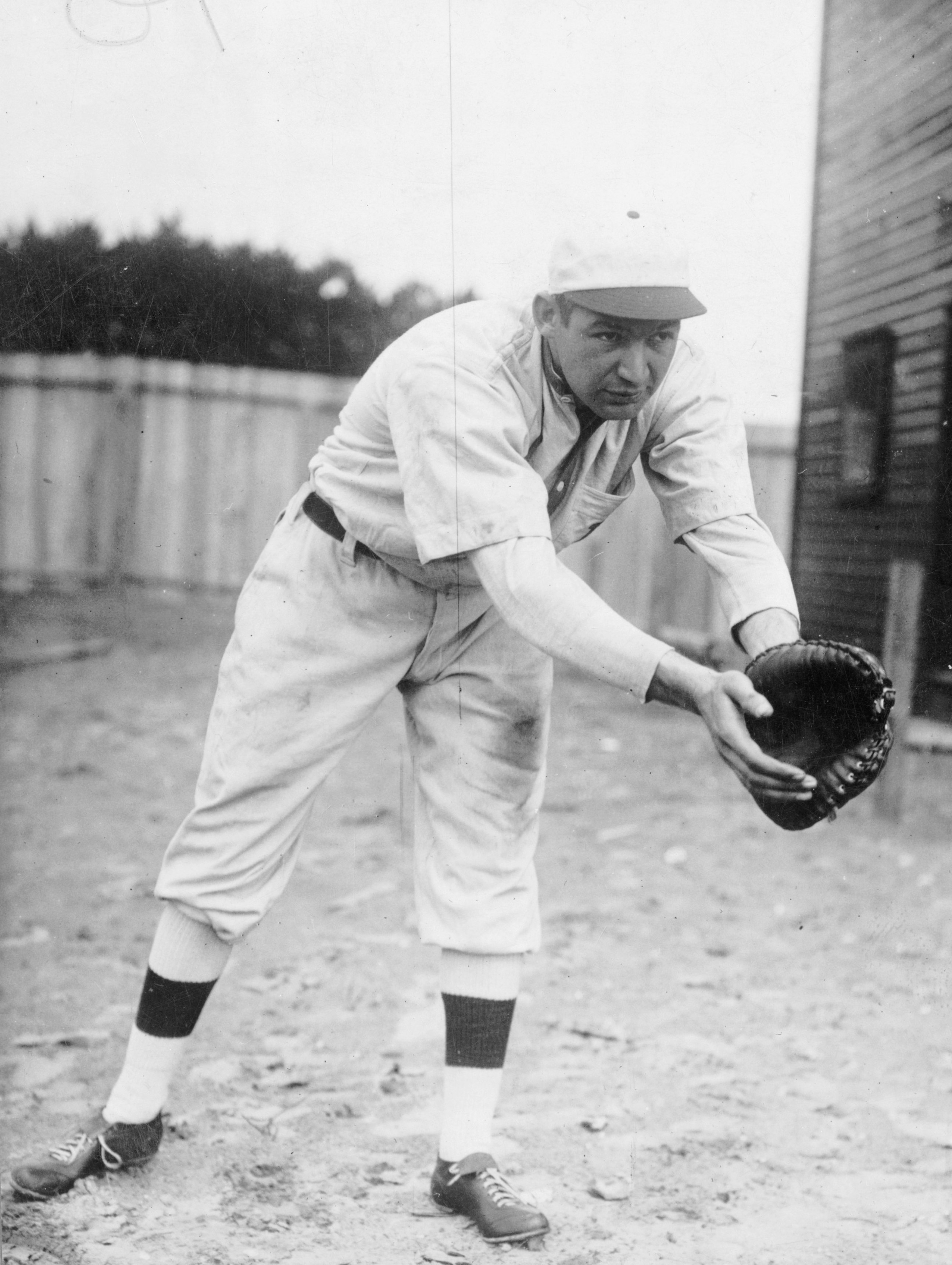 Title: John Barney "Dots" Miller, St. Louis Cardinals baseball player, standing in position as 1st baseman, ready to receive thrown ball Abstract/medium: 1 photographic print.